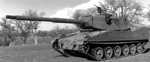 One of six preproduction versions of the XM-8 Armored Gun System (AGS) going through extensive testing